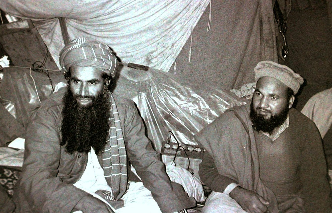 This is a photo of Abdul Rasul Sayyaf of Afghanistan (left) with one of his top lieutenants, Commander Abdullah. I took this picture when I interviewed him in Jaji, Paktia Province, Afghanistan on 30 August 1984. [hillwalker] hillwalker 13:18, 18 August 2007 (UTC)